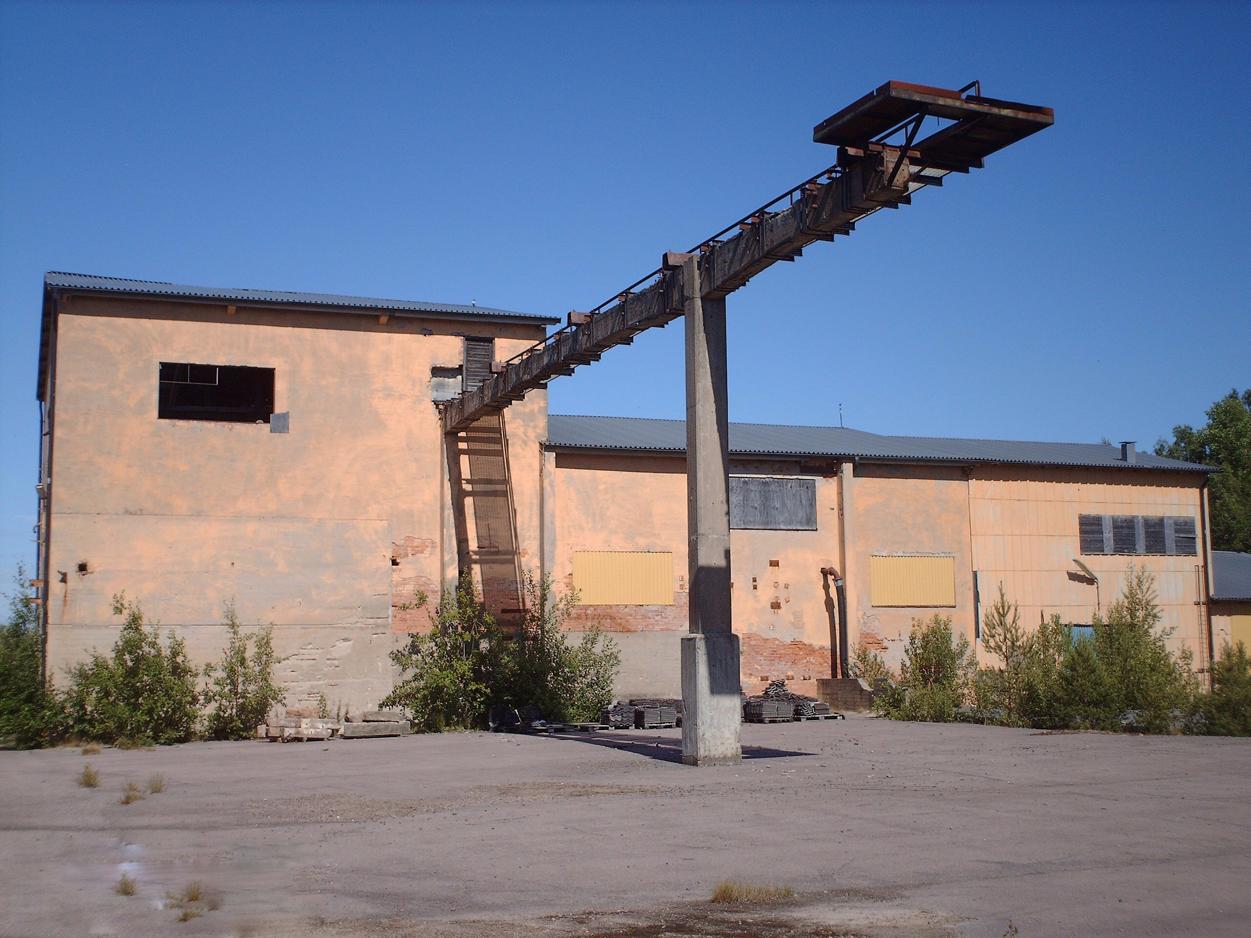 The former sand industry at Lemunda, Motala, Sweden.